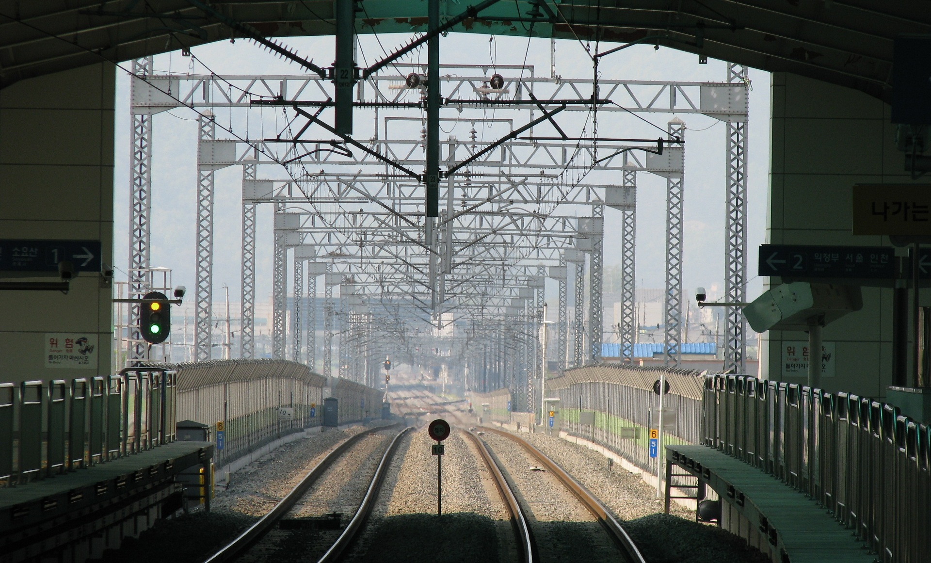 Looking North inside the Bosan Train Station on the Seoul Subway Line.